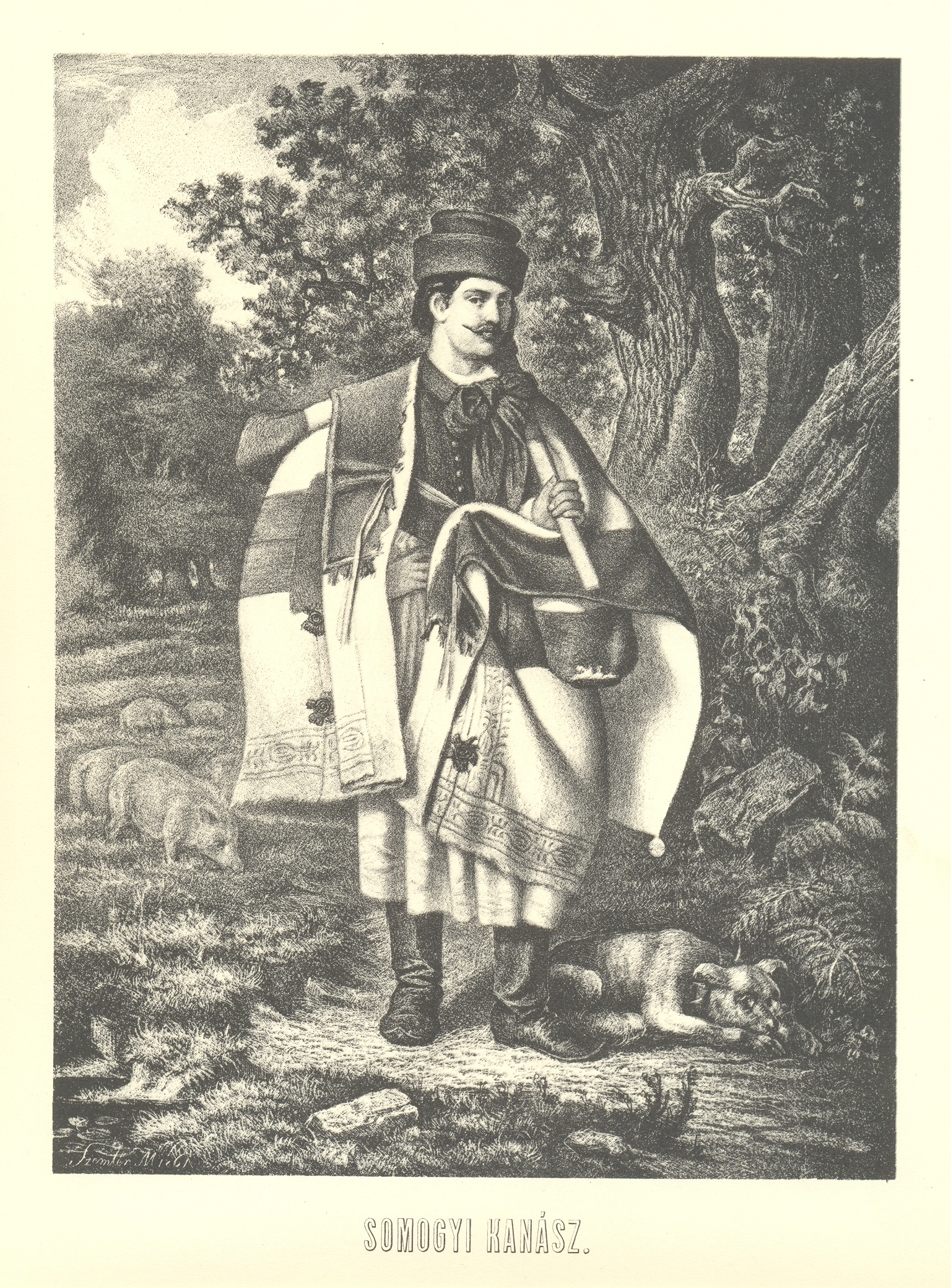 Pig-shepherd from Somogy County, Hungary